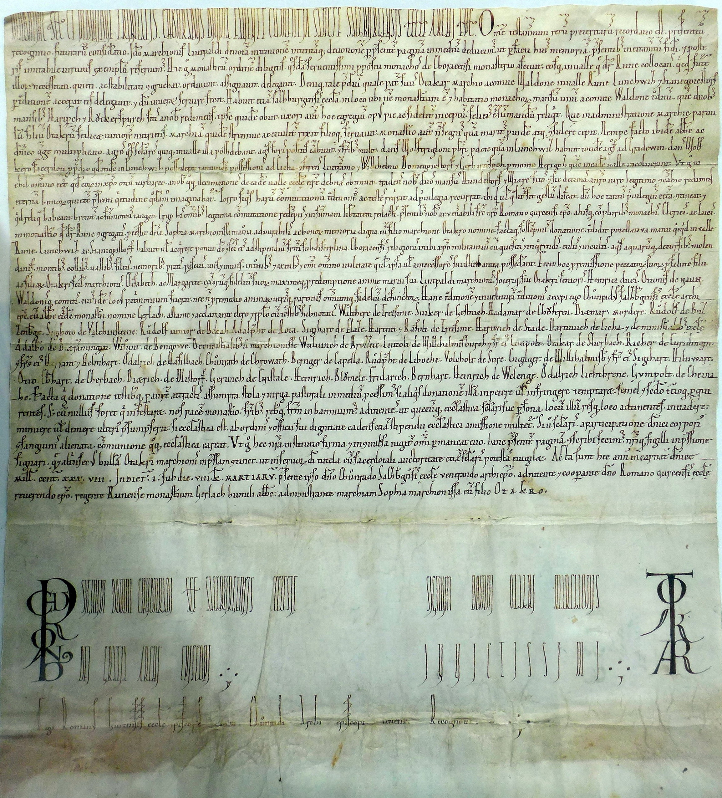 Foundation deed of Rein abbey (facsimile) by Leopold the Strong of Styria, 1138, Rein abbey, Rein, Styria, Austria